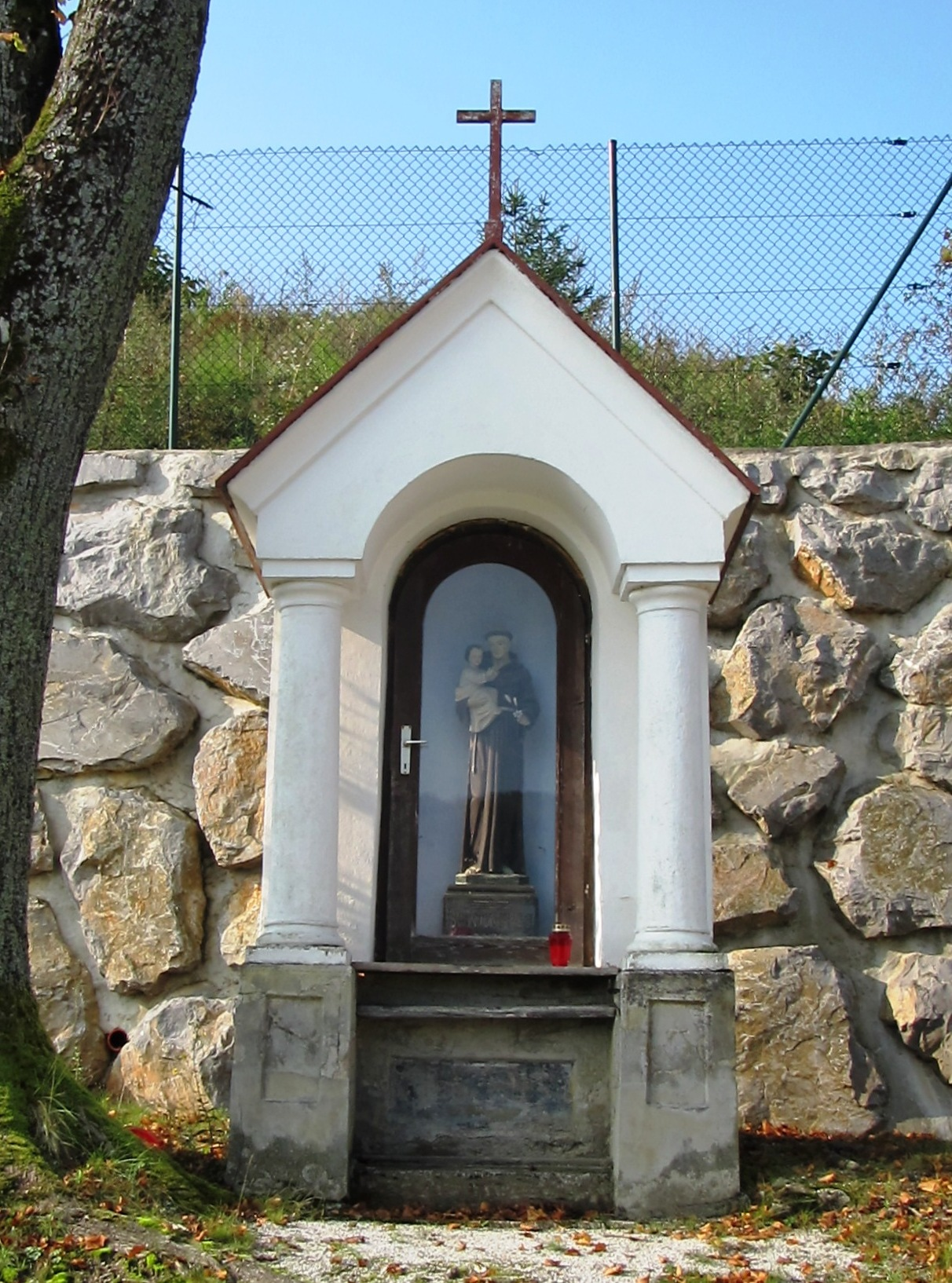 Chapel-shrine in Javor, City Municipality of Ljubljana, Slovenia.